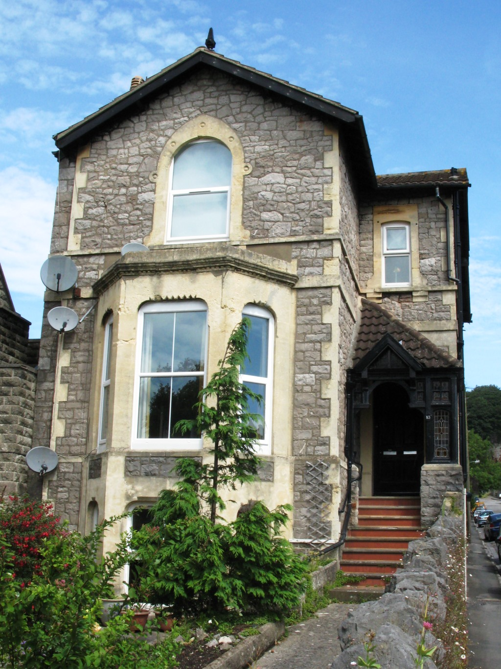 Queens Road, Weston-super-Mare, Somerset, England, leading to Town Quarry on Worlebury Hill. House on corner of Church Road by Hans Price.